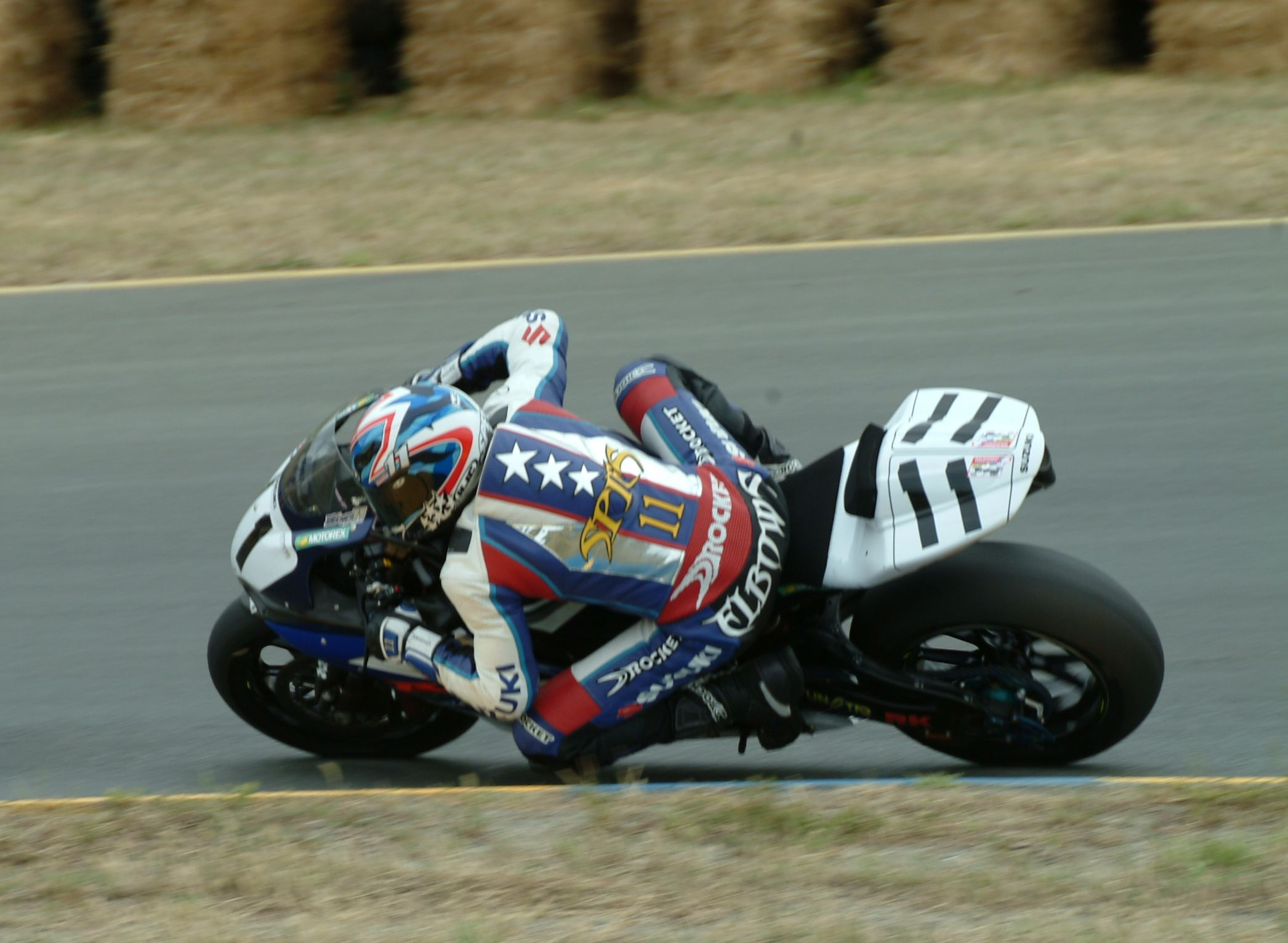 Elbows at Sears Point 2005